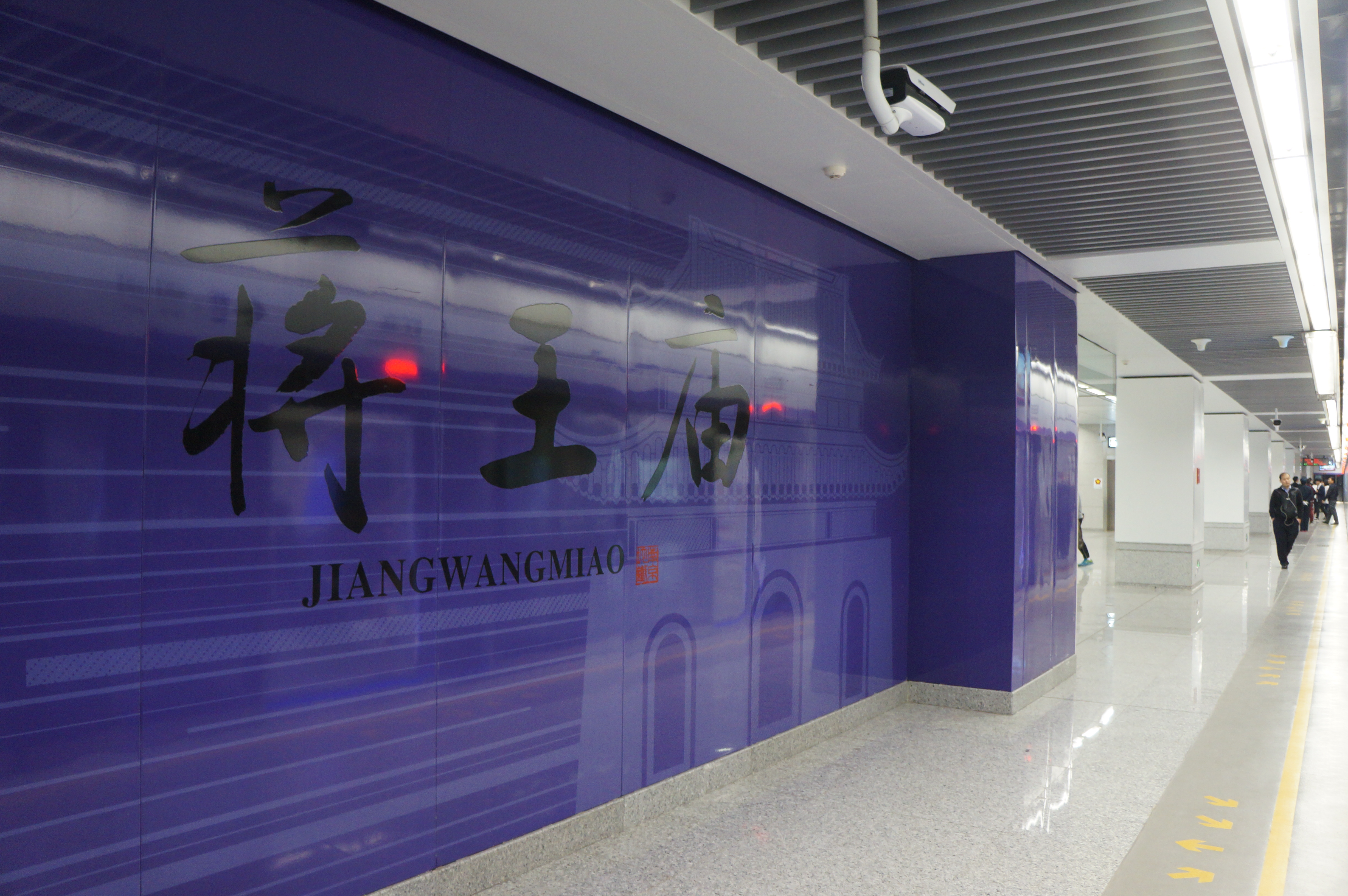 201704 Jiangwangmiao Station, initially named Huayuanlu Station